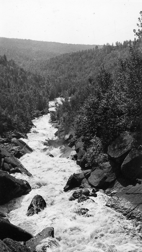 Scope and content: Original caption: Upper Poplar River Falls.